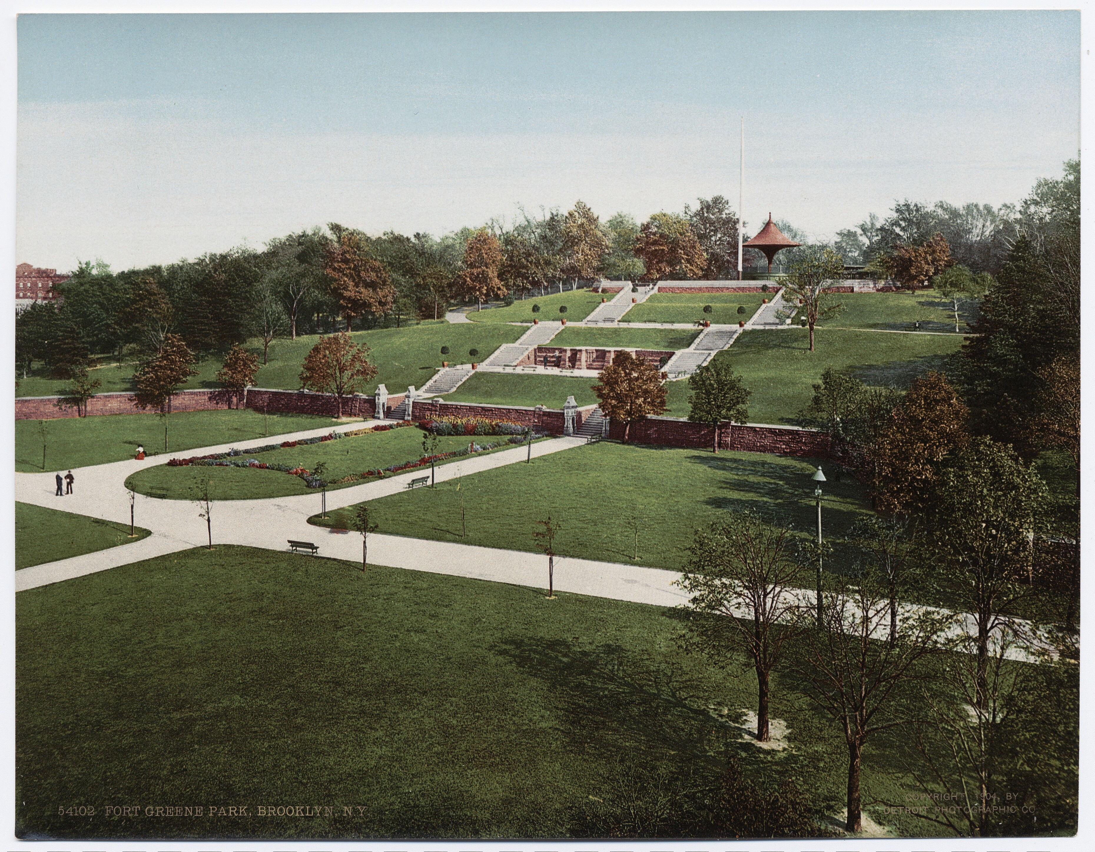 A photochrom postcard published by the Detroit Photographic Company.